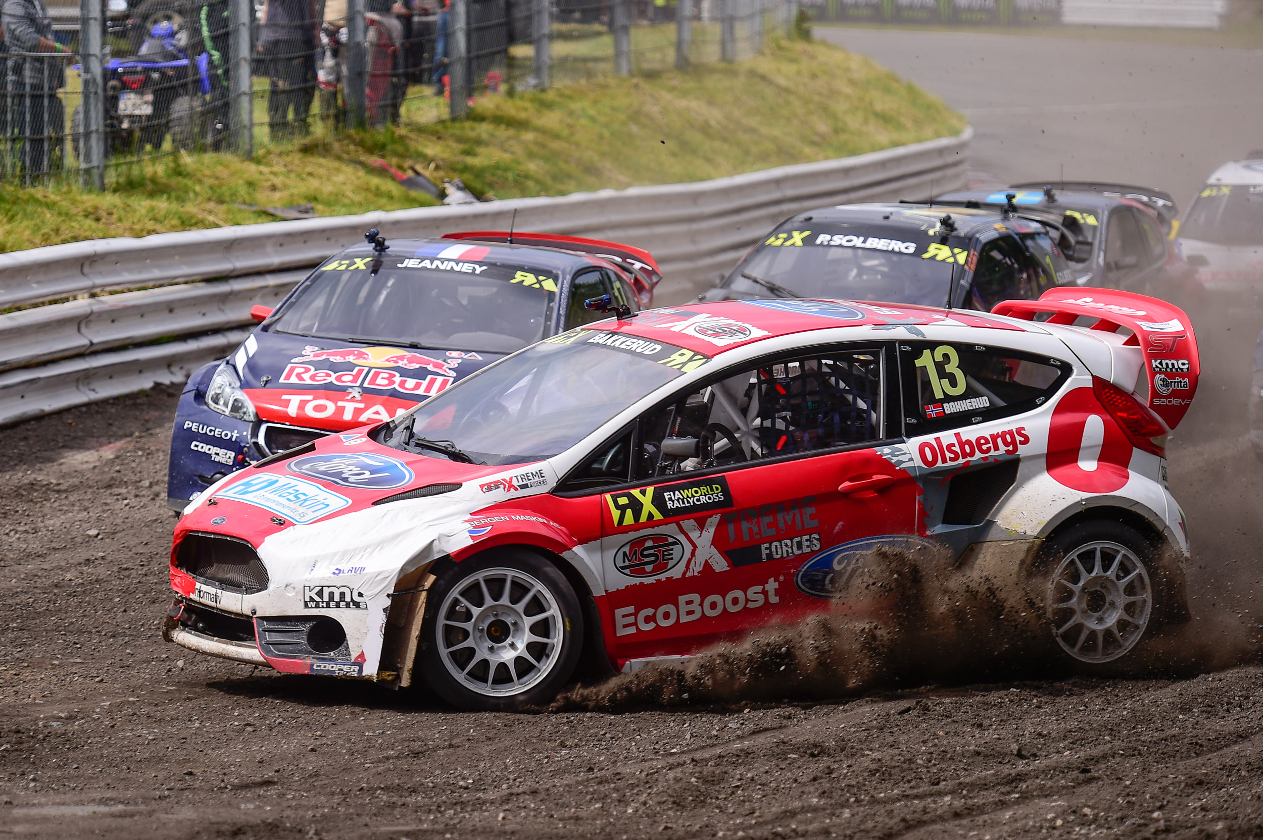 Andreas Bakkerud (Ford) leads Davy Jeanney (Peugeot) and Petter Solberg (Citroën) in the Supercar Final at Round 5 of the 2015 FIA World Rallycross Championship at Estering, Germany.